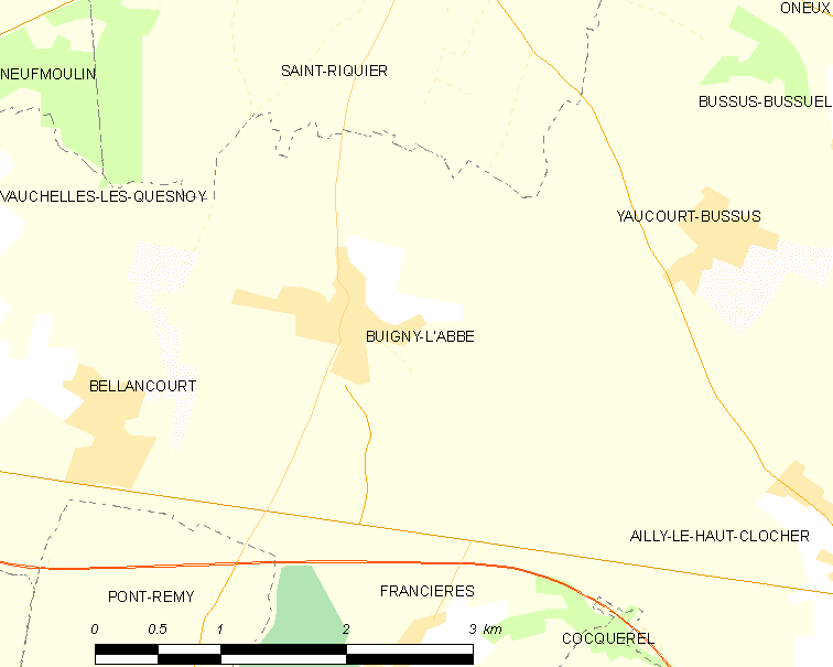 Map of French municipality Buigny-l'Abbé